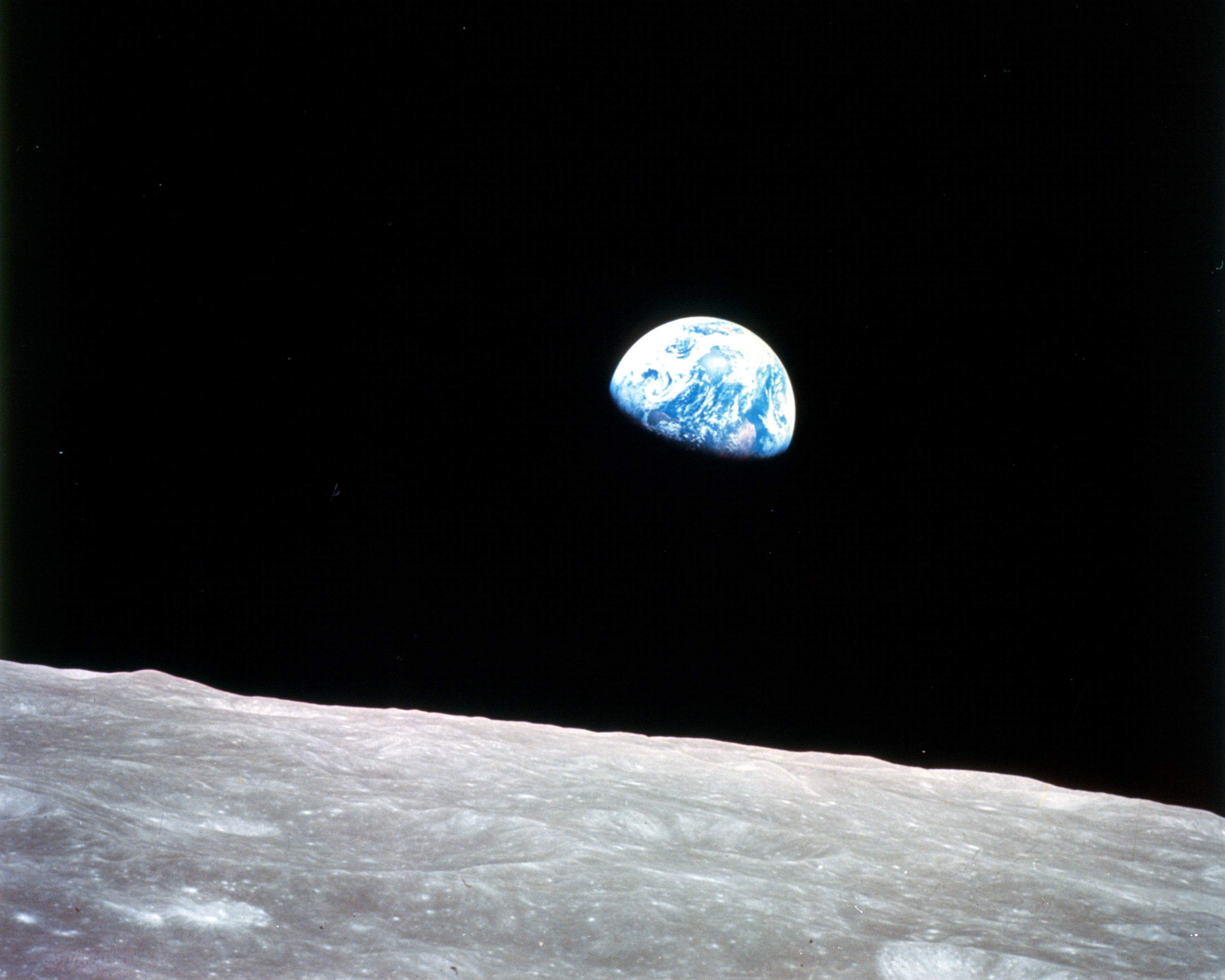 This view of the rising Earth greeted the Apollo 8 astronauts as they came from behind the Moon after the fourth nearside orbit. Earth is about five degrees above the horizon in the photo. The unnamed surface features in the foreground are near the eastern limb of the Moon as viewed from Earth. The lunar horizon is approximately 780 kilometers from the spacecraft. Width of the photographed area at the horizon is about 175 kilometers. On the Earth 240,000 miles away, the sunset terminator bisects Africa.